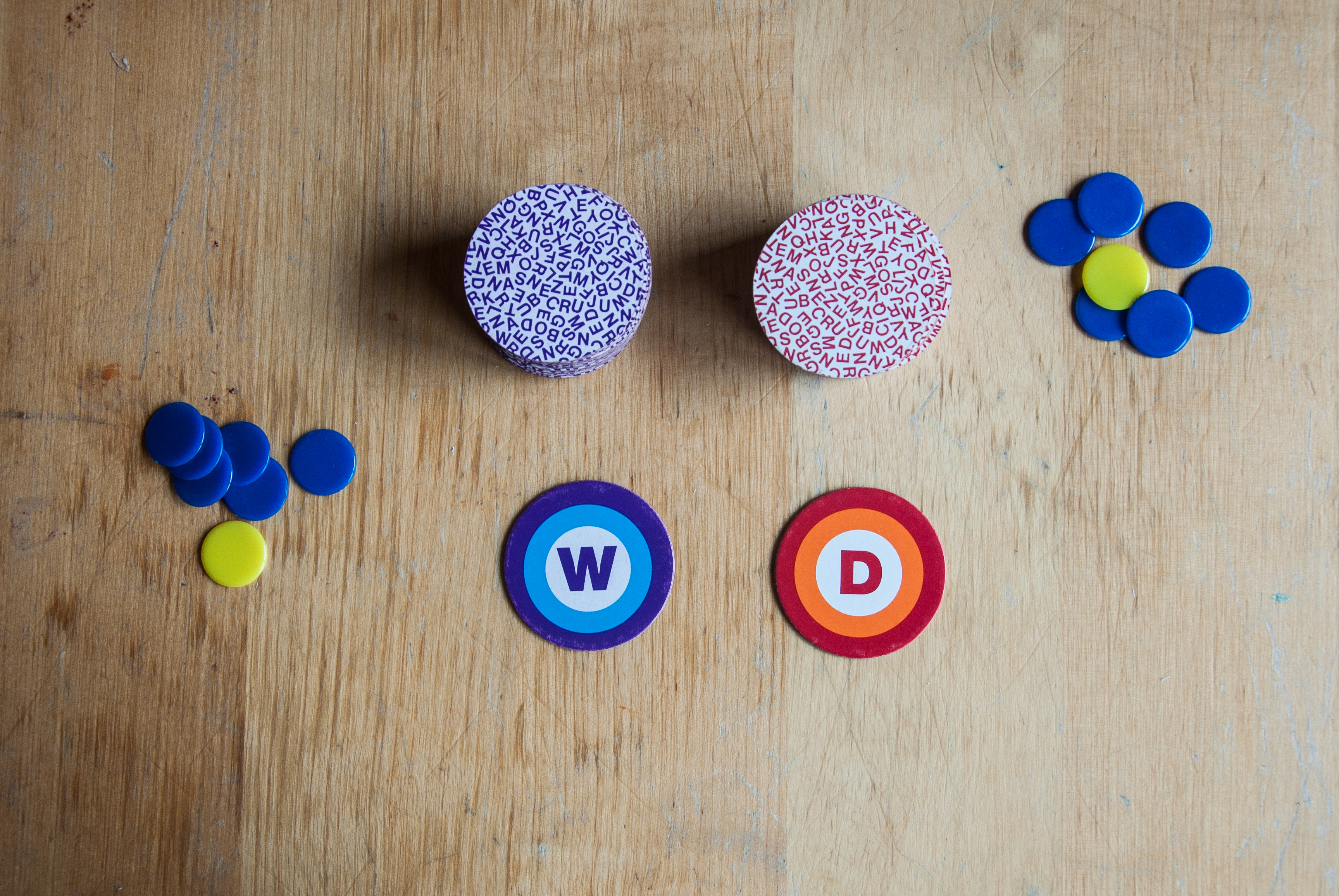 Wortfix, german card game